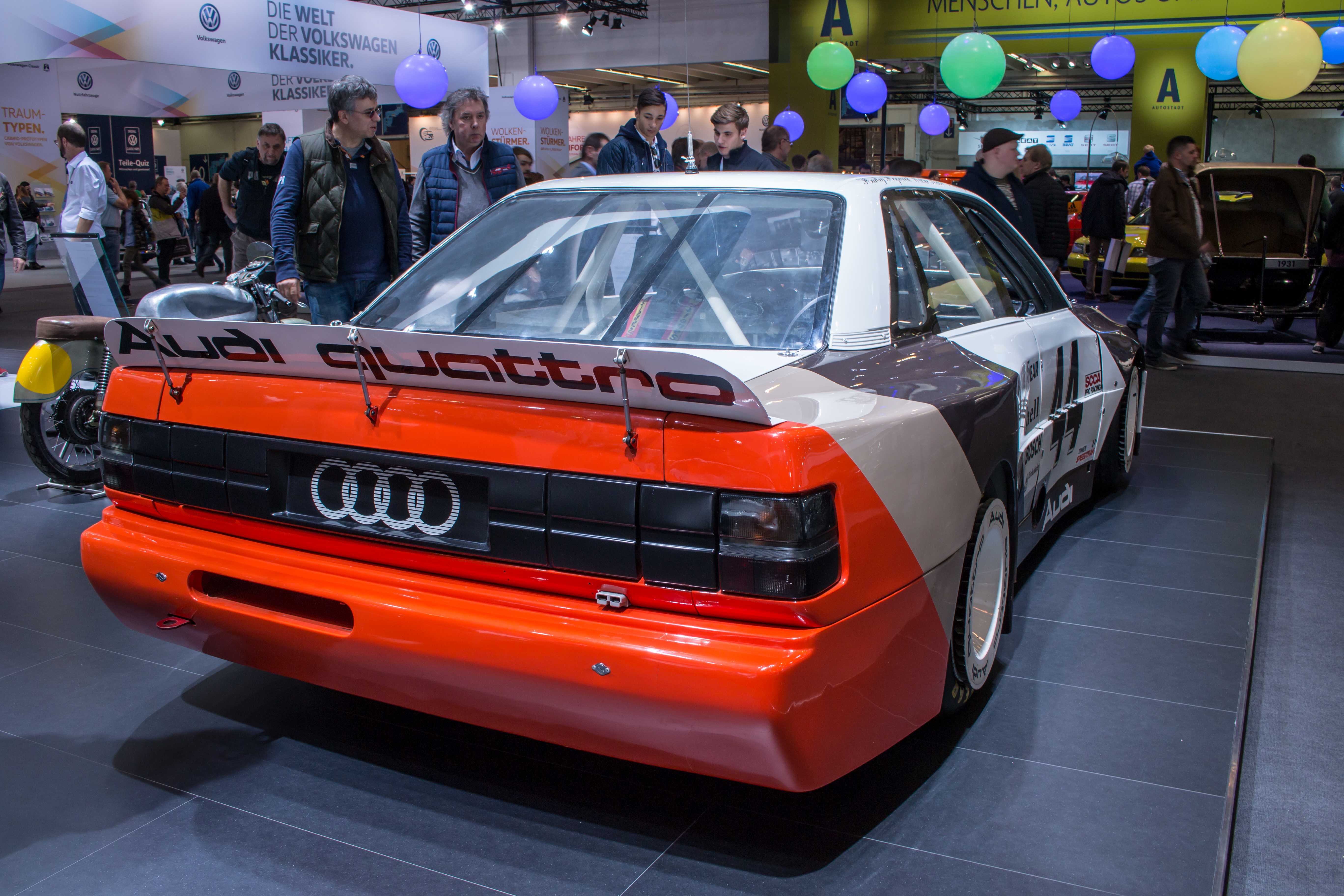 Techno-Classica 2018, Essen